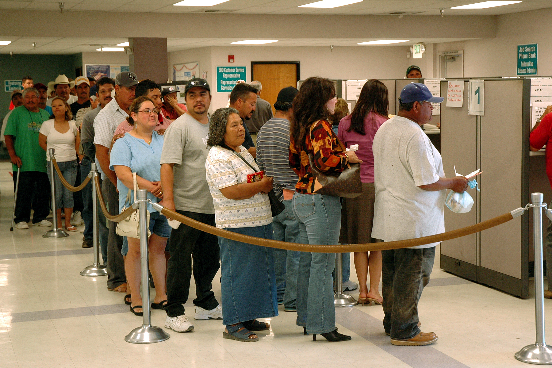 CALEXICO, CA, 4-4-07 --- Hundreds of people who lost jobs when the freeze hit California Jan. 12-14, 2007, lined up at state Unemployment Development Department offices, including the office in the border city of Calexico, to register for the Disaster Unemployment Assistance program funded by FEMA. FEMA Photo by Michael Raphael